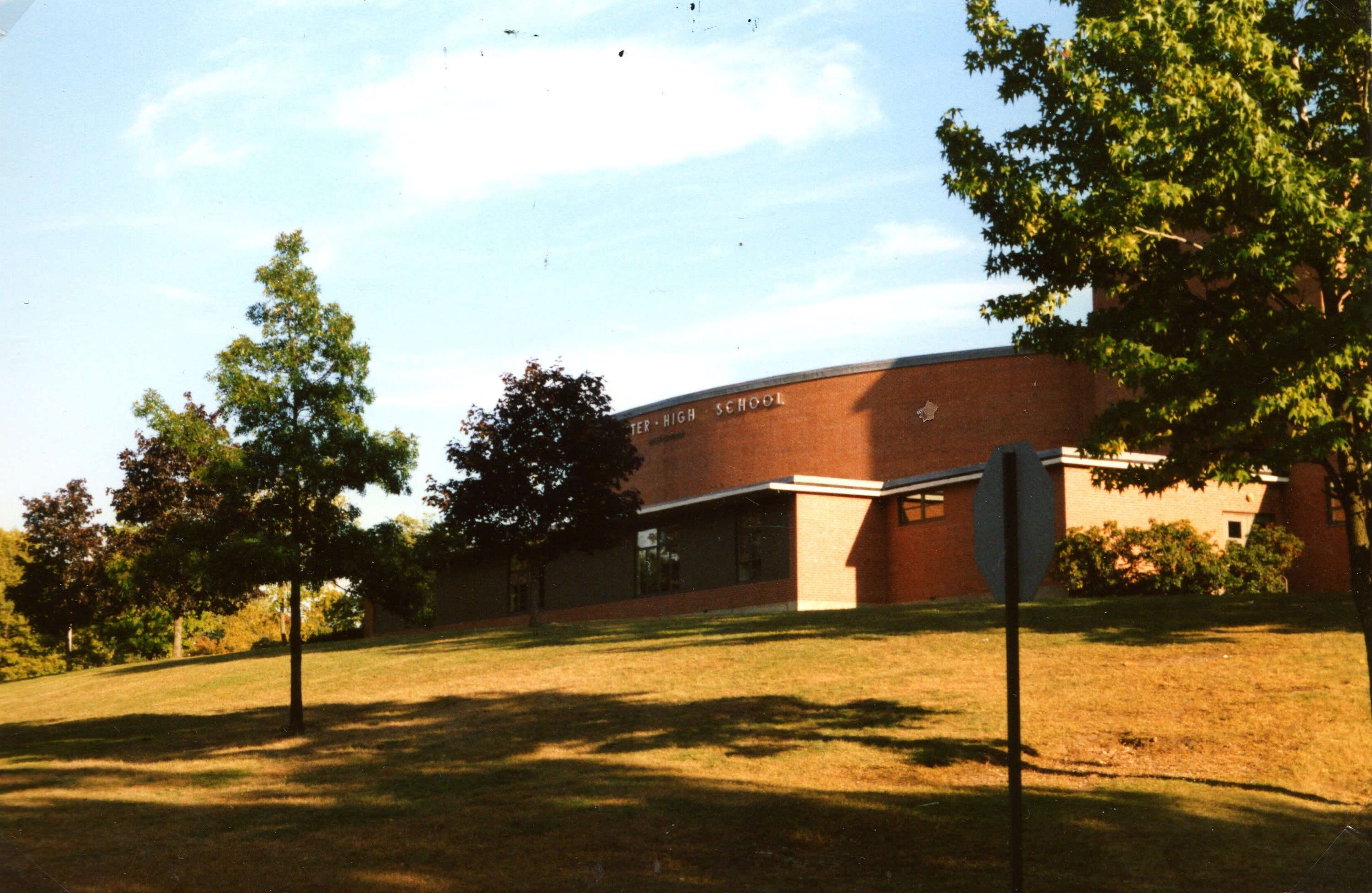 Manchester High School (Connecticut)